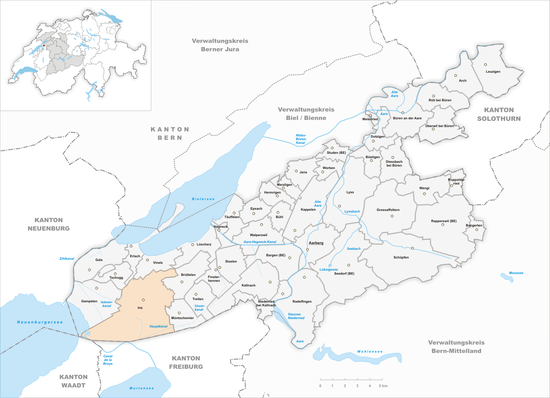 Municipality Ins